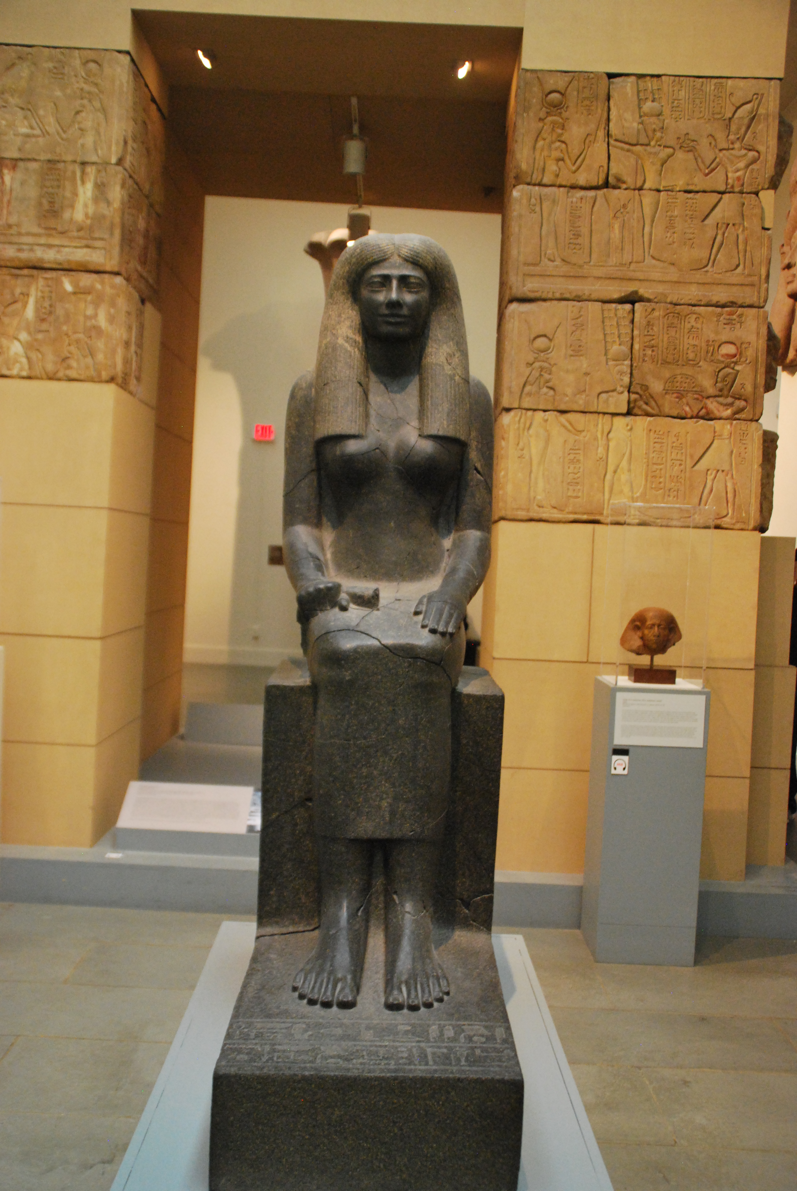 Ancient Egyptian statue of the lady Sennuwy, wife of the nomarch Djefaihapi. Granodiorite from Kerma, 12th Dynasty, Middle Kingdom. Boston MFA, acc. no. 14.720.[1]